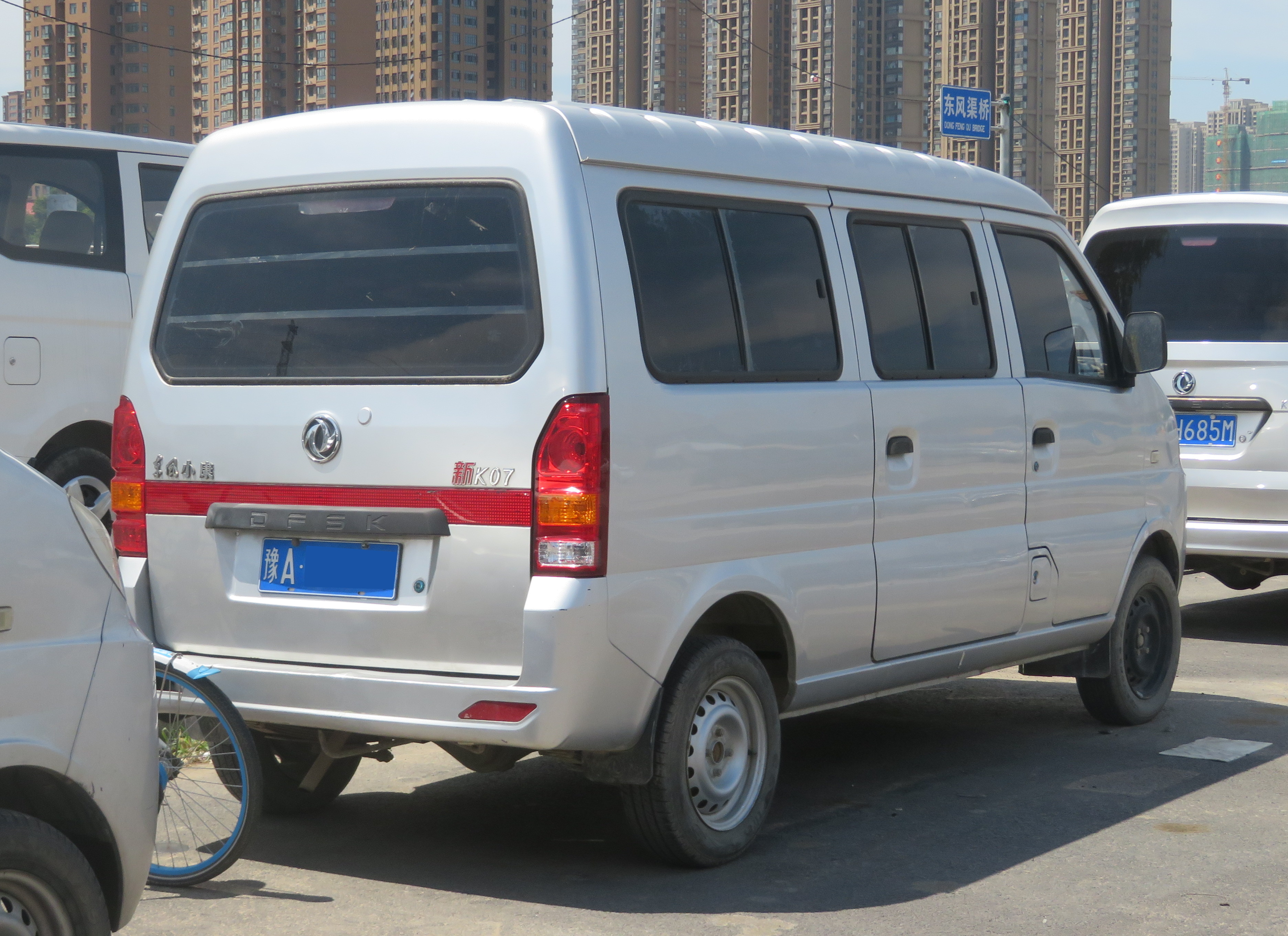 Photographed in Zhengzhou, Henan province, China